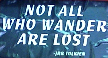 Created proverb by Tolkien, on American bumper sticker